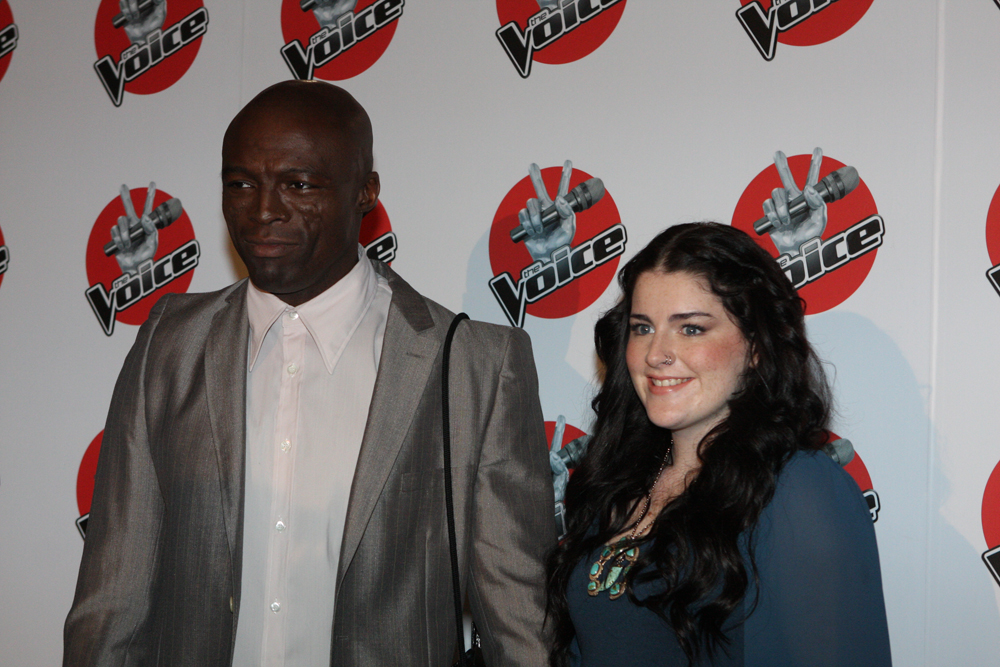 Seal and Karise Eden at The Voice (Australia) media conference in Hordern Pavilion, Moore Park.